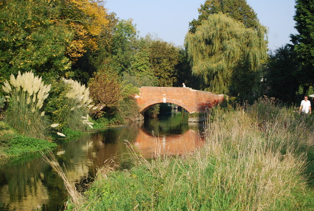 A bridge over the River Stour at Fordwich in Kent. For more information see the Wikipedia articles River Stour, Kent and Fordwich.